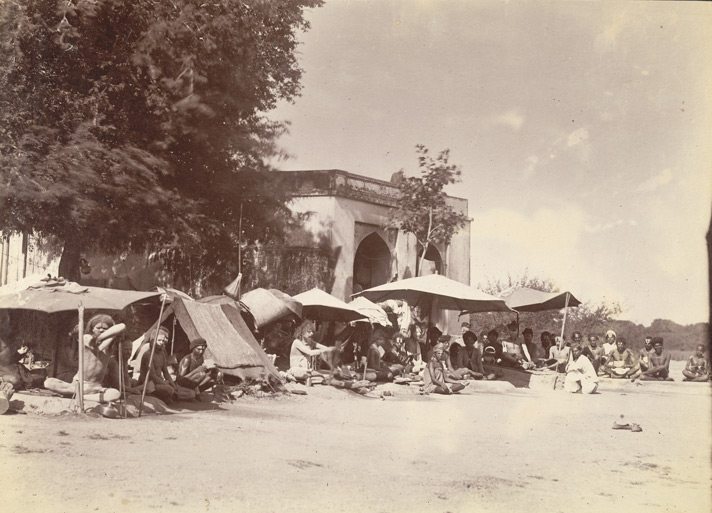 Photograph of a scene at Ahmadabad in Gujarat, taken by Charles Lickfold in the 1880s, part of the Bellew Collection of Architectural Views. Ahmadabad spreads along the river Sabarmati and is Gujarat's capital city. It was built on the site of Ashawal village, which had a history of settlement for thousands of years. The Sultan of Gujarat, Ahmad Shah I (ruled 1411-42), built a capital at Ashaval, naming it Ahmadabad. The city flourished and was a centre of art and literature. It was annexed in 1572 by the Mughal emperor Akbar (ruled 1556-1605), and prospered as a major textile centre. With the decline of Mughal power it was taken by the Marathas in 1758, and finally went to the British in 1817. Textile mills established in 1861 led to it being referred to as the Manchester of the East and Ahmadabad remains an industrial powerhouse of modern India. This image shows a group of fakirs or wandering ascetics or mendicants.